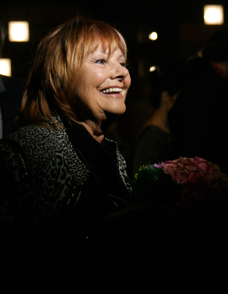 Elfriede Ott at the premiere of the movie Die unabsichtliche Entführung der Frau Elfriede Ott at the Gartenbaukino in Vienna.